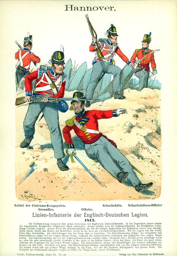 Hannover. Englisch-Deutsche Legion. Linien-Infanterie. Soldat der Zentrums-Kompanien: Grenadier. Offizier. Scharfschütz. Scharfschützen-Offizier. 1812